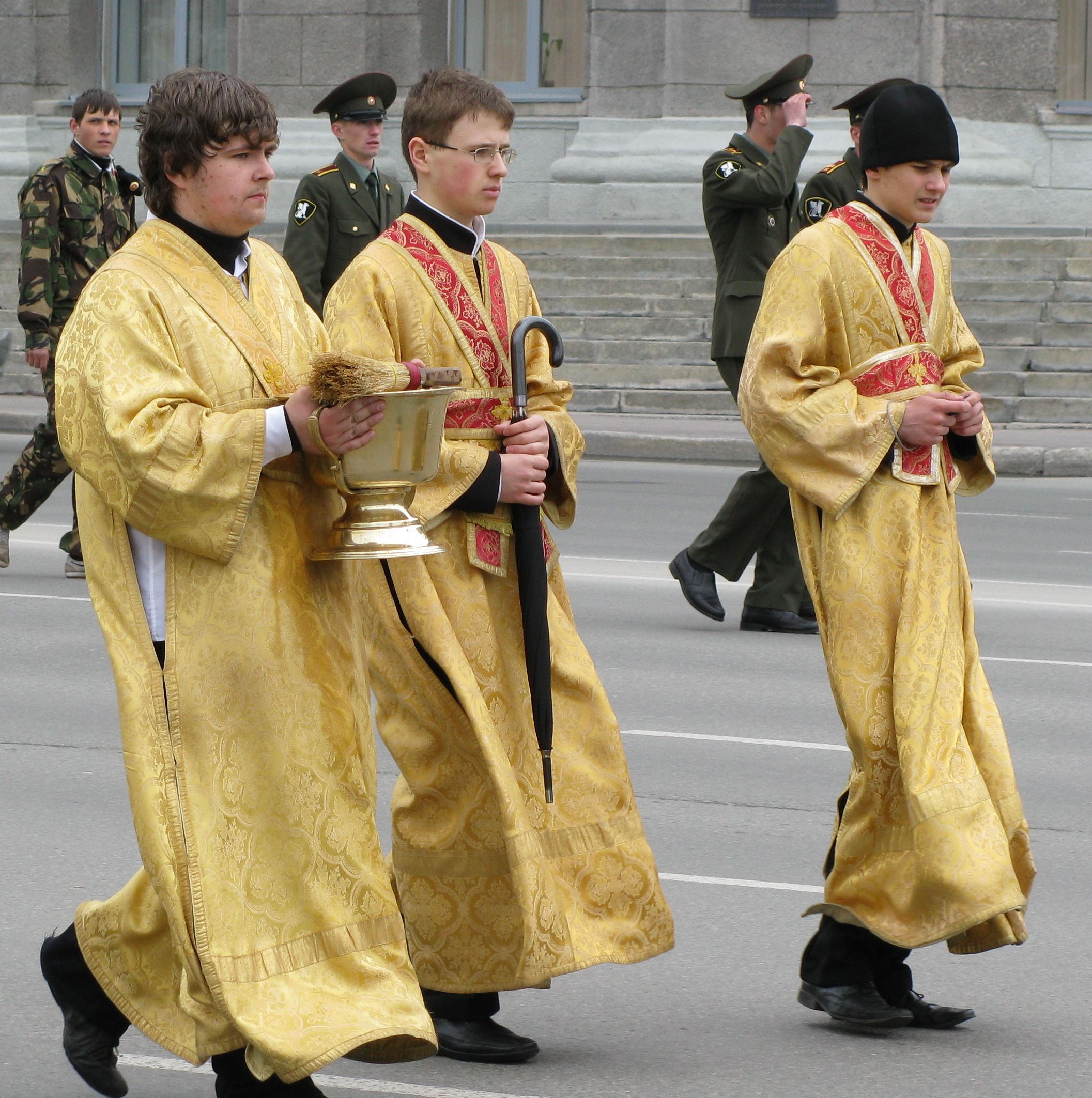 Subdeacons at the Cross Procession in Novosibirsk